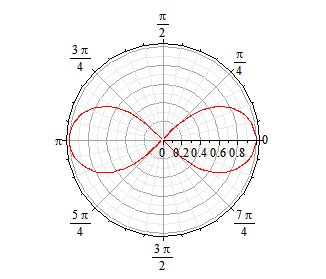 Solid of revolution of a lemniscate